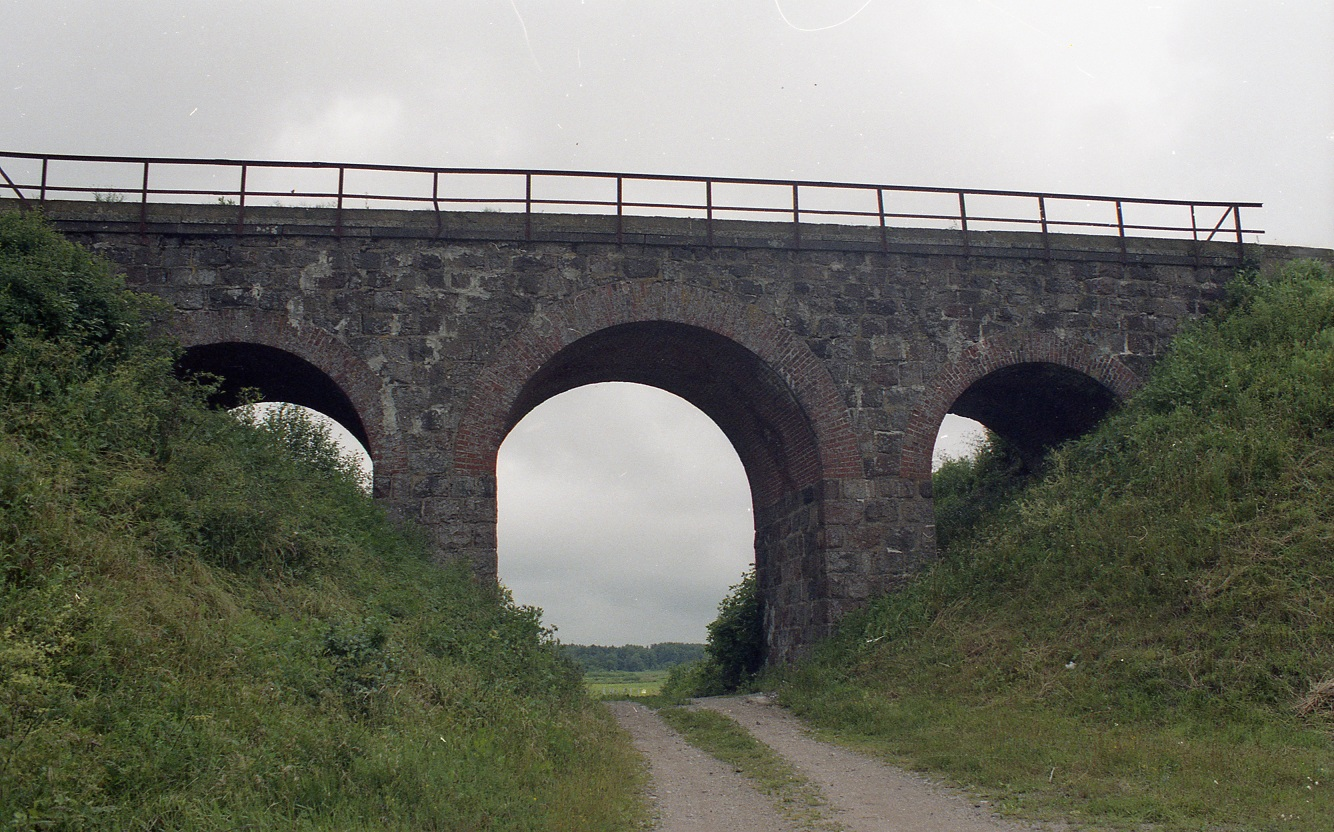 Railway viaduct at Bajorai, Kretinga district, Lithuania.